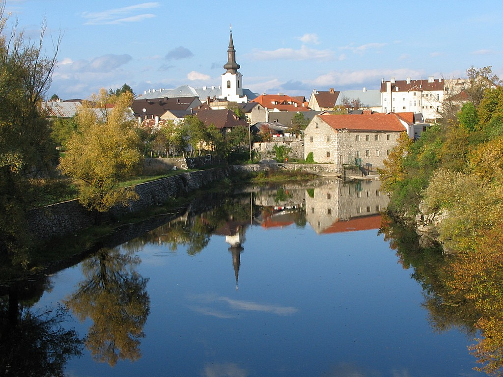 Panoramic view of Gospić, Croatia